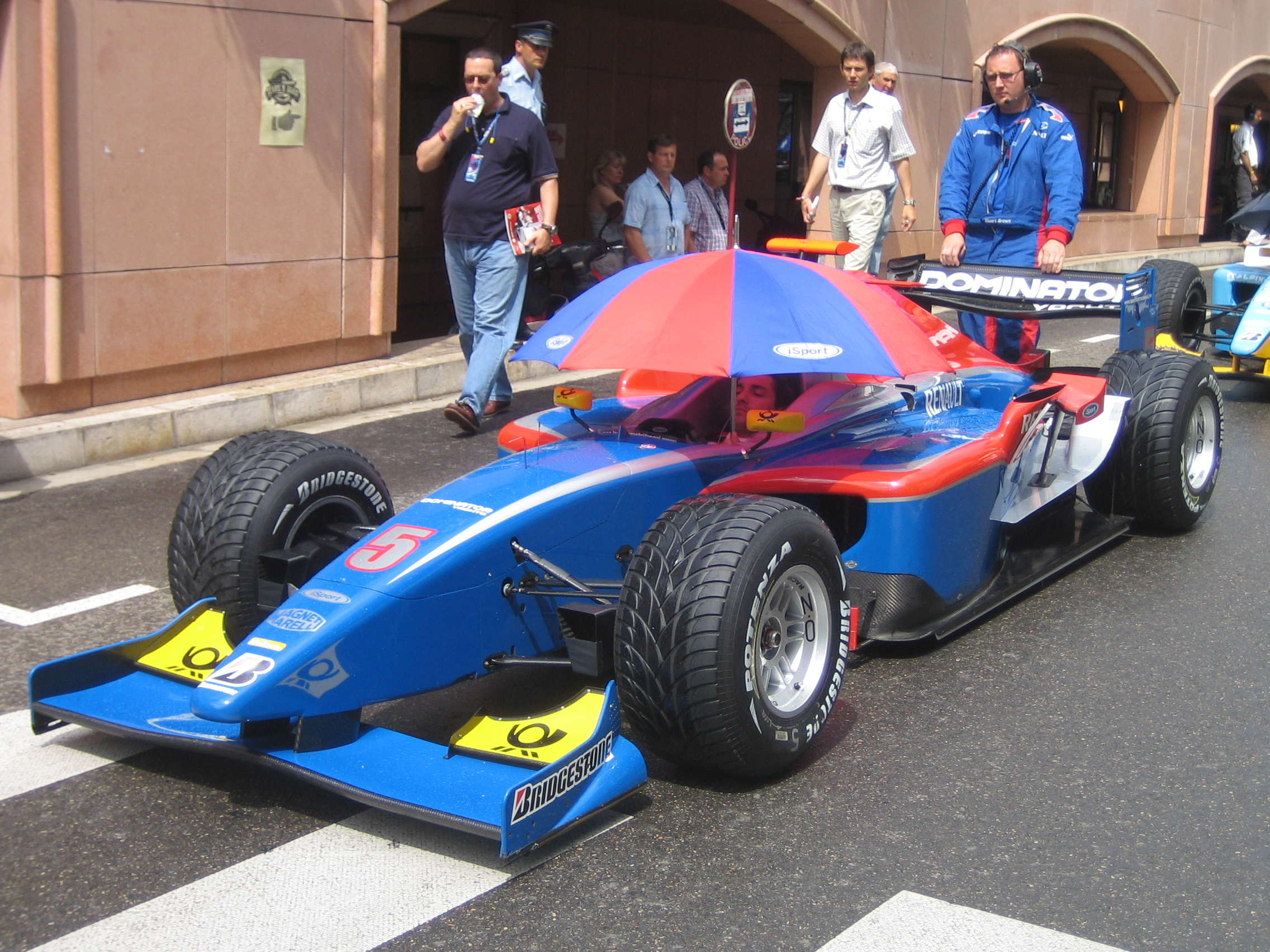 GP2 driver Timo Glock on the way to the start of the GP2 race at Monaco in 2007. He finished third to lead the championship by 16 points.